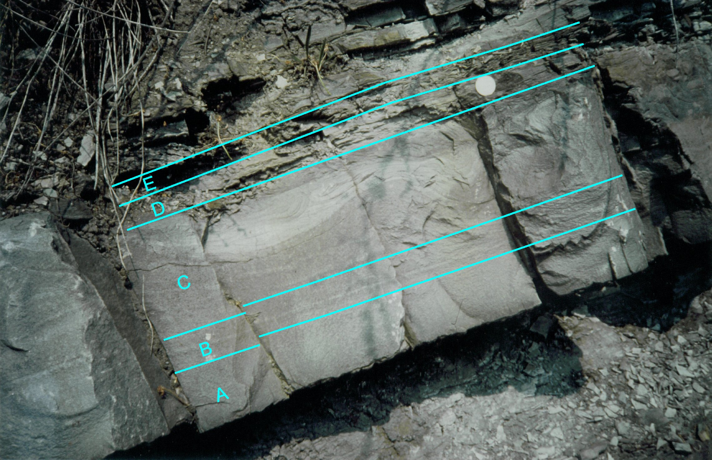 Upper Devonian Turbidite from Rheinisches Schiefergebirge with gradded and convolute bedding. Complete Bouma sequence (Bouma-Sequenz (de.)), each part of the sequence is labeled. Nehden formation, former sandstone quarry, Becke-Oese.